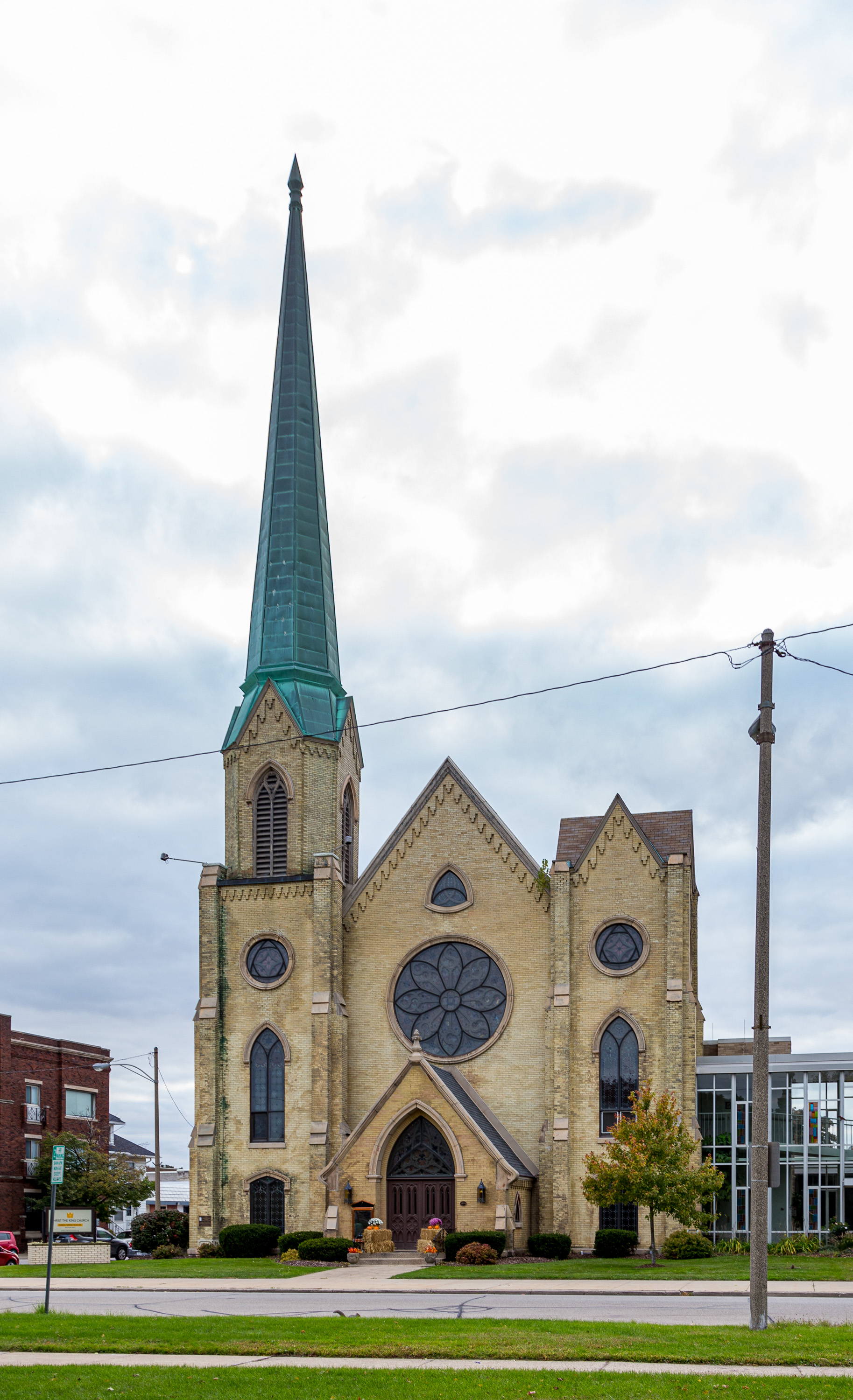 Christ The King Church, 5934 8th Ave Kenosha, Wisconsin. Built 1874. Formerly First Congregational Church, a contributing property to the Library Park Historic District, NRHP 88002657.